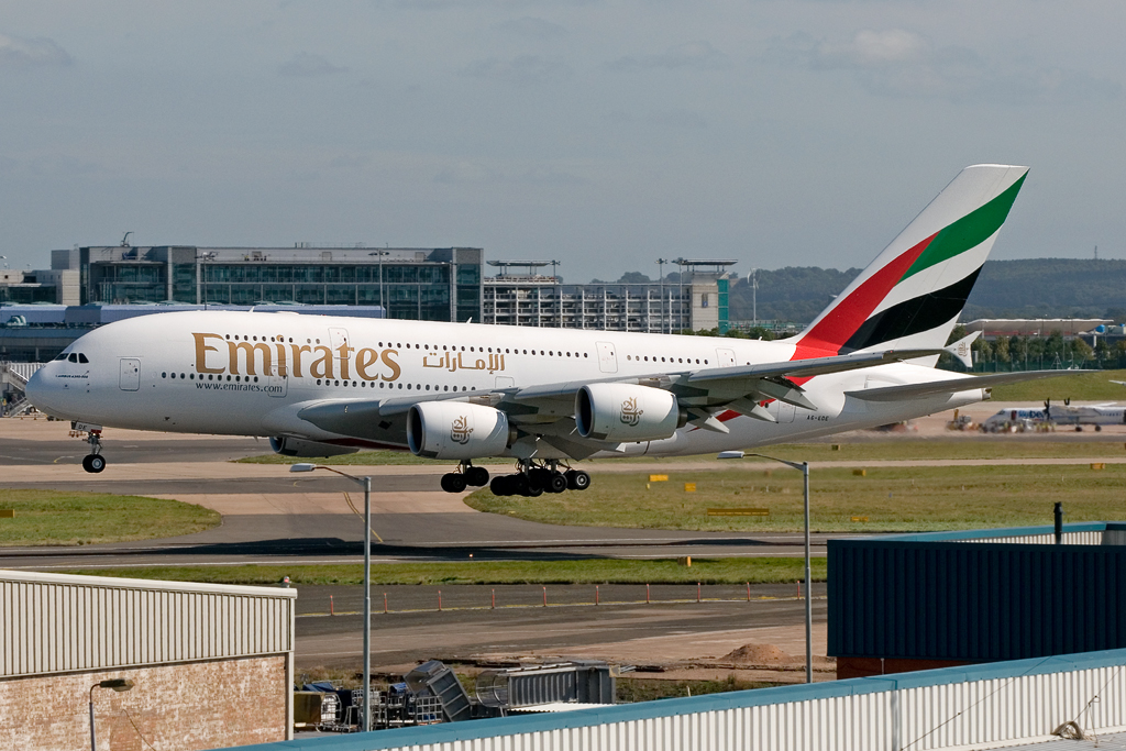 Uploaded from Flickr courtesy of User:Hartlandmartin